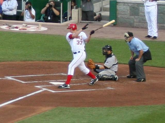 Stephen Strasburg bats during his major league debut on June 8, 2010, against Jeff Karstens of the Pittsburgh Pirates at Nationals Park in Washington, DC. This is a cropped portion of a larger photograph I took during the ballgame on June 8, 2010. The license granted here applies only to this cropped portion of the original image as uploaded.